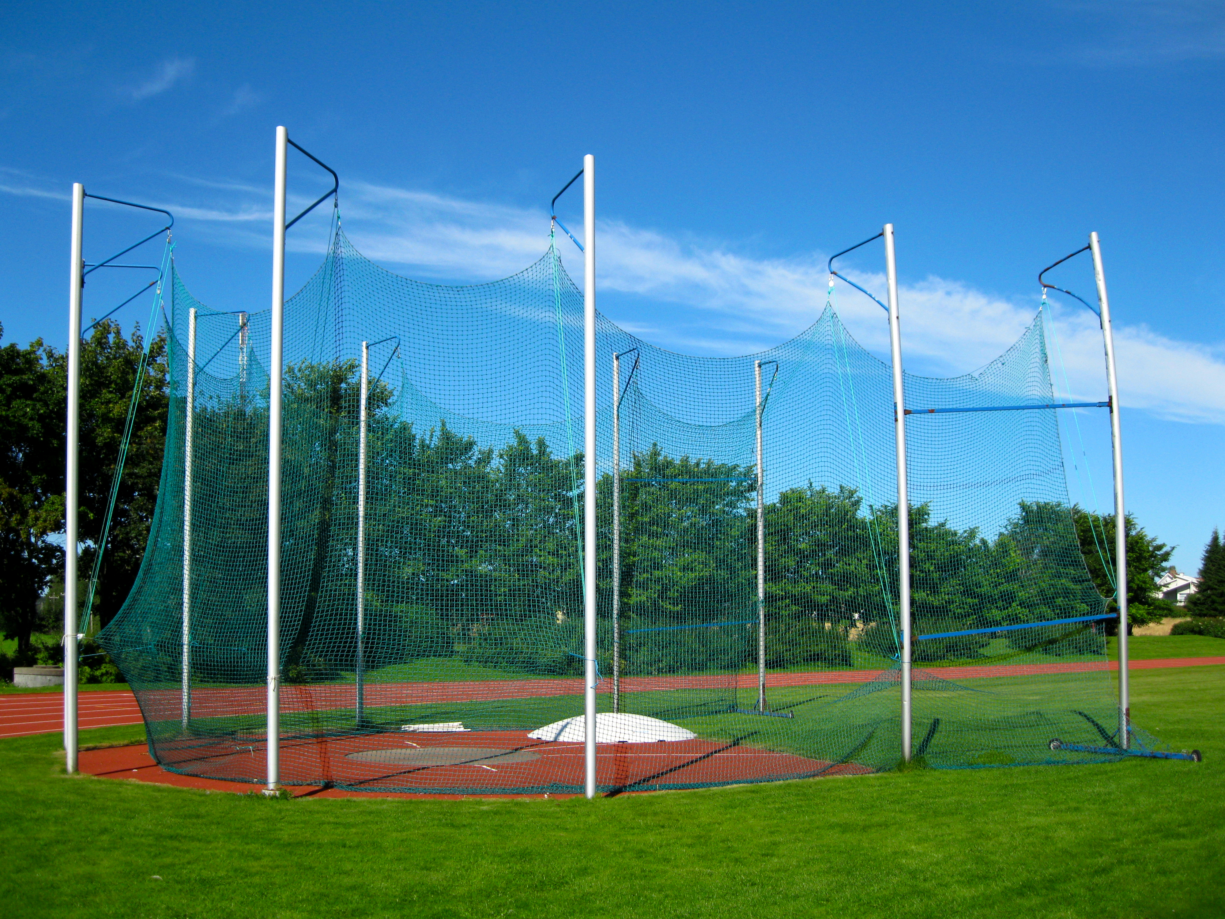 Safety net for hammer throw in Lappajärvi.